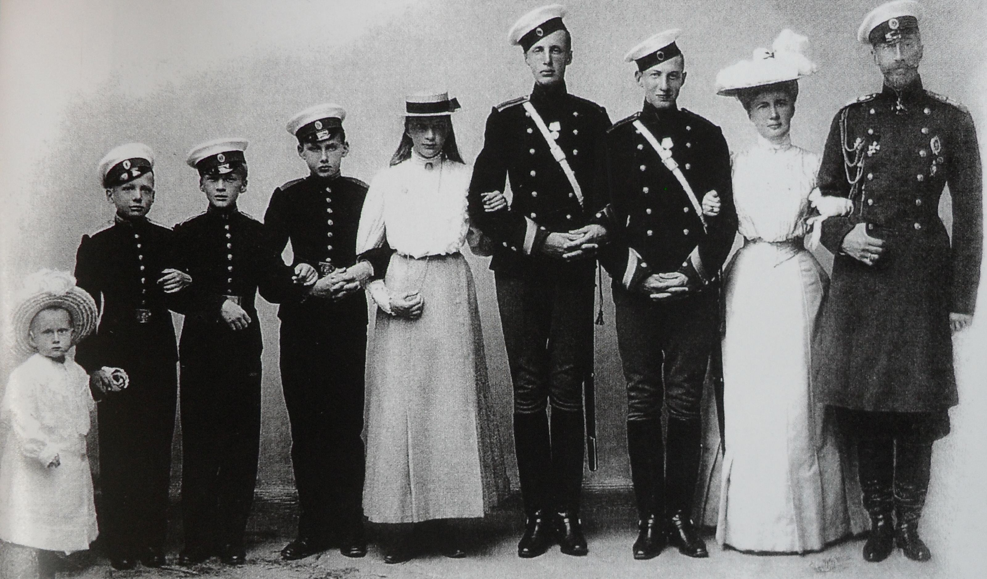 Grand Duke Constantine Constantinovich of russia with his wife and their children